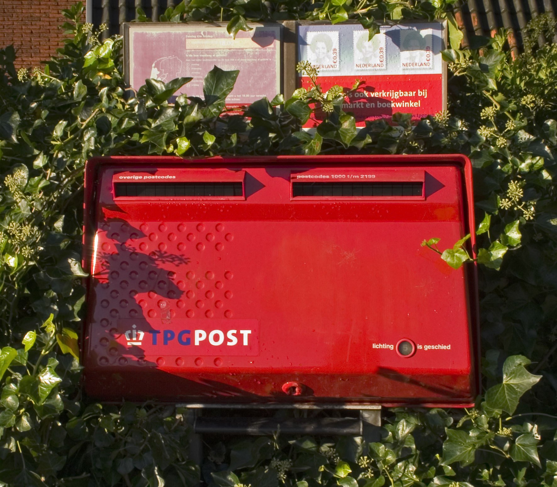 Royal TPG Post postbox.